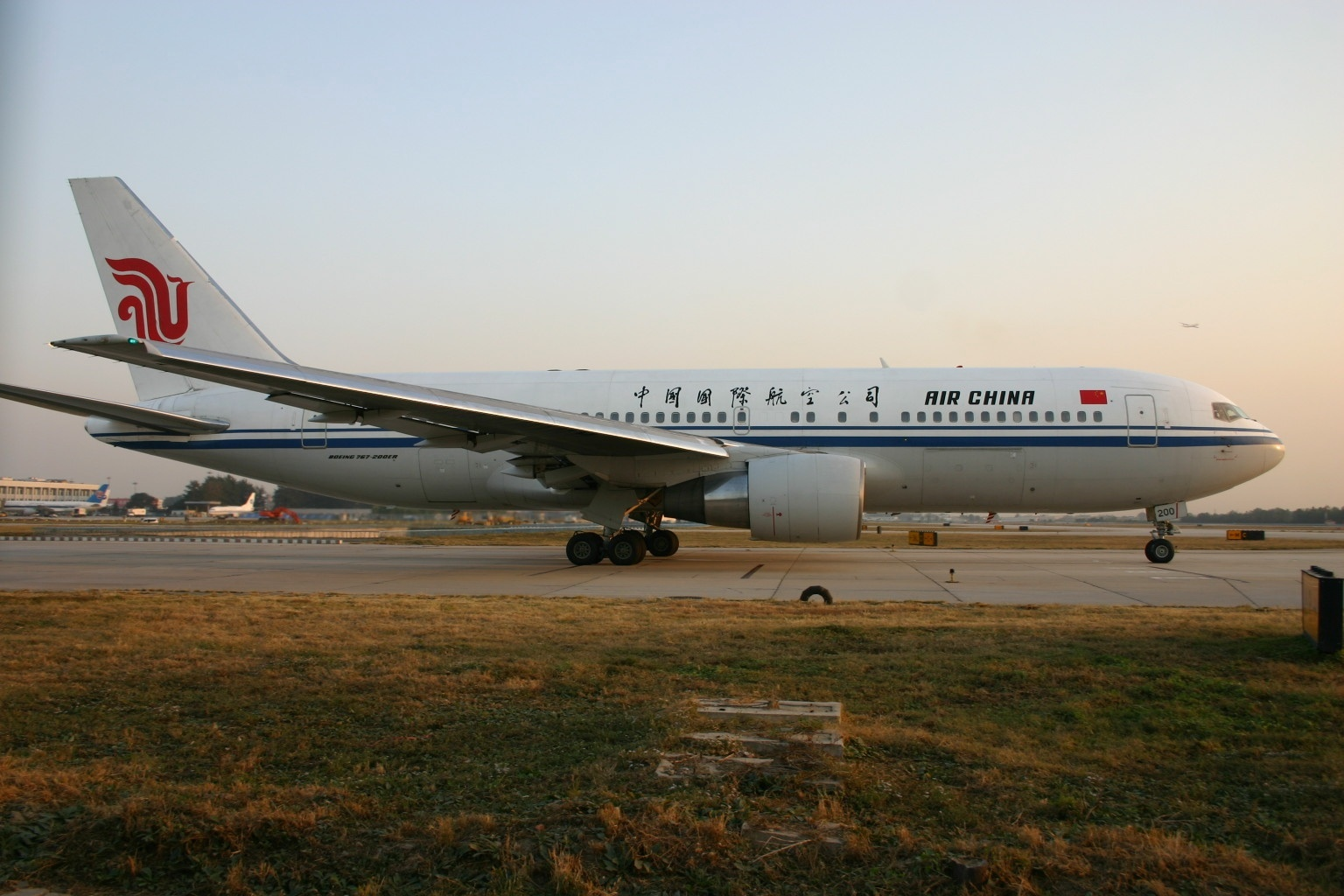 At Beijing Capital